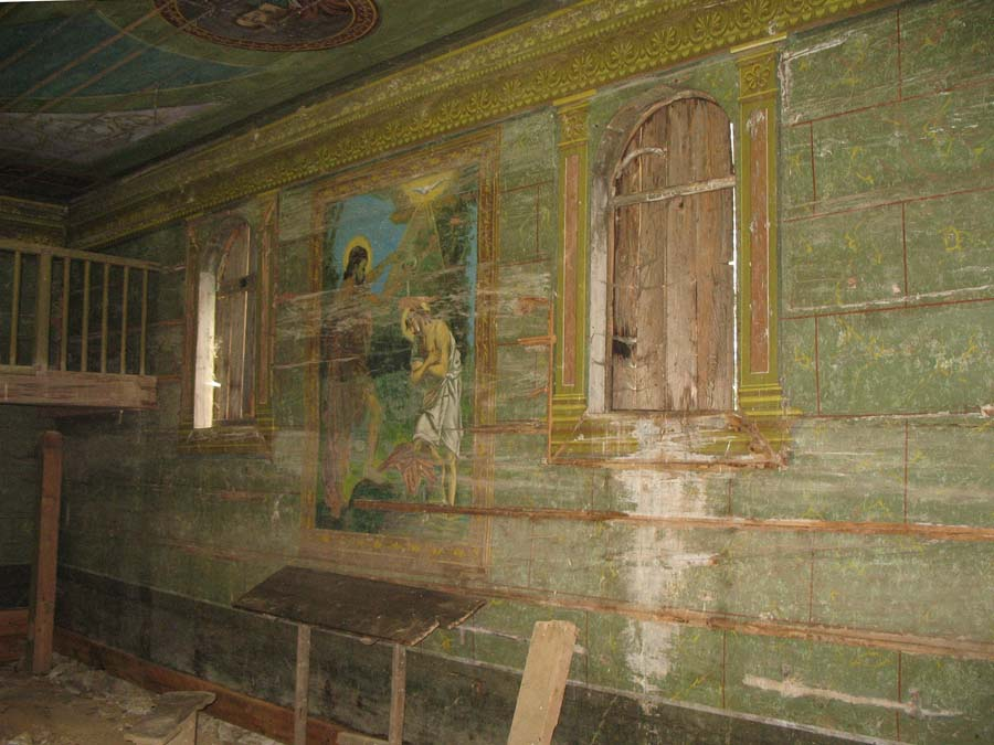 Chyrzynka (Poland), Greek Catholic church